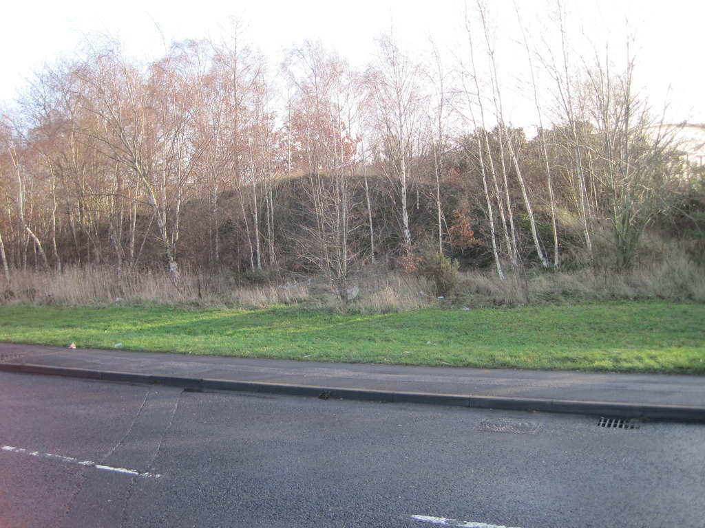 Wath North railway station (site), YorkshireOpened in 1841 by the North Midland Railway on the line from Rotherham to Leeds, this station closed in 1968. View east across Station Road at the embankment remains, upon which the station was situated. Wath-upon-Dearne used to have three railway stations. This was the last to close.